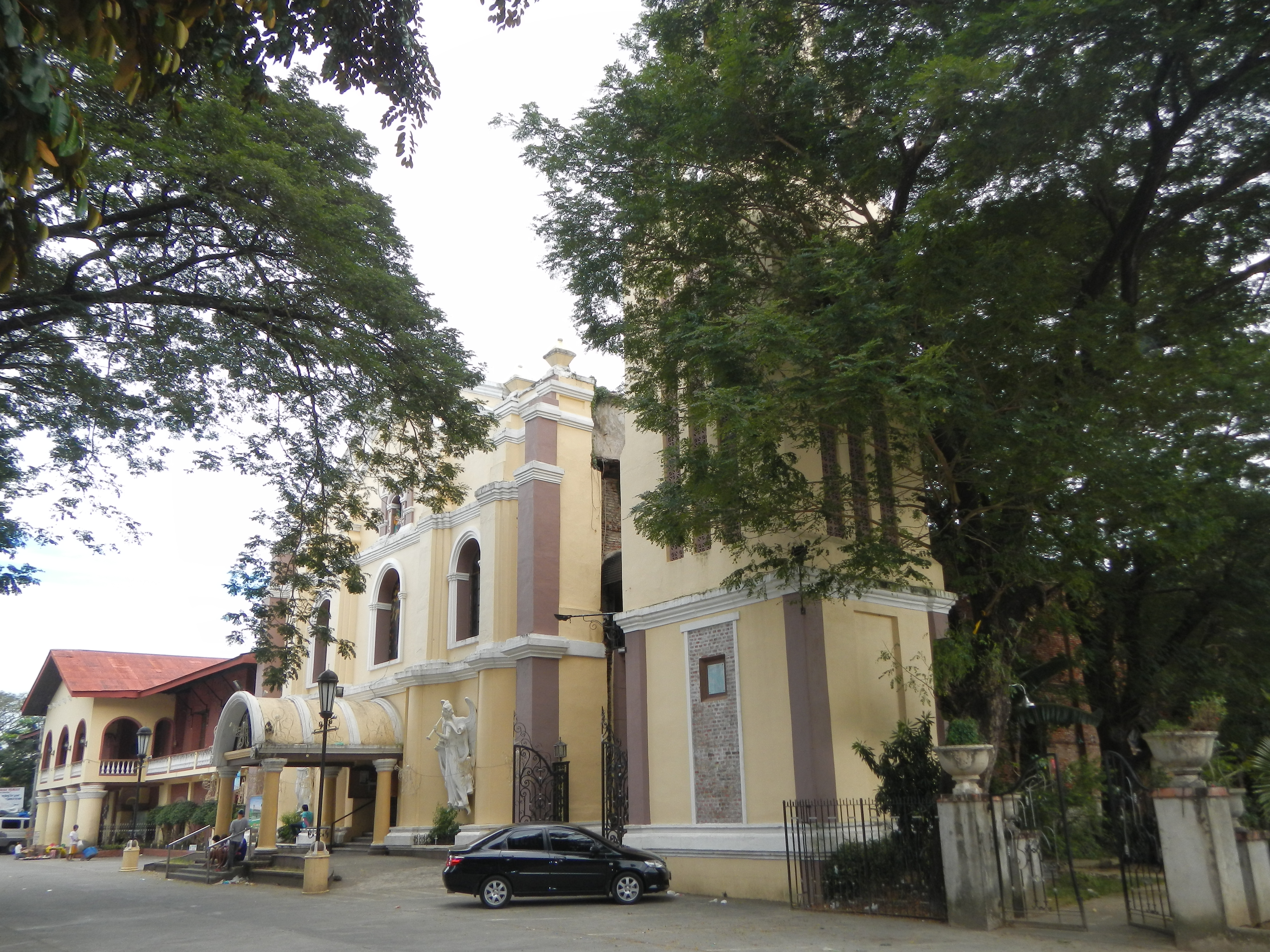 Vicariate I:Queen of the Apostles-Holy Family Parish, Sta. Barbarra Parish of the Holy Family Church[1] Santa Barbara, Pangasinan [2] [3]